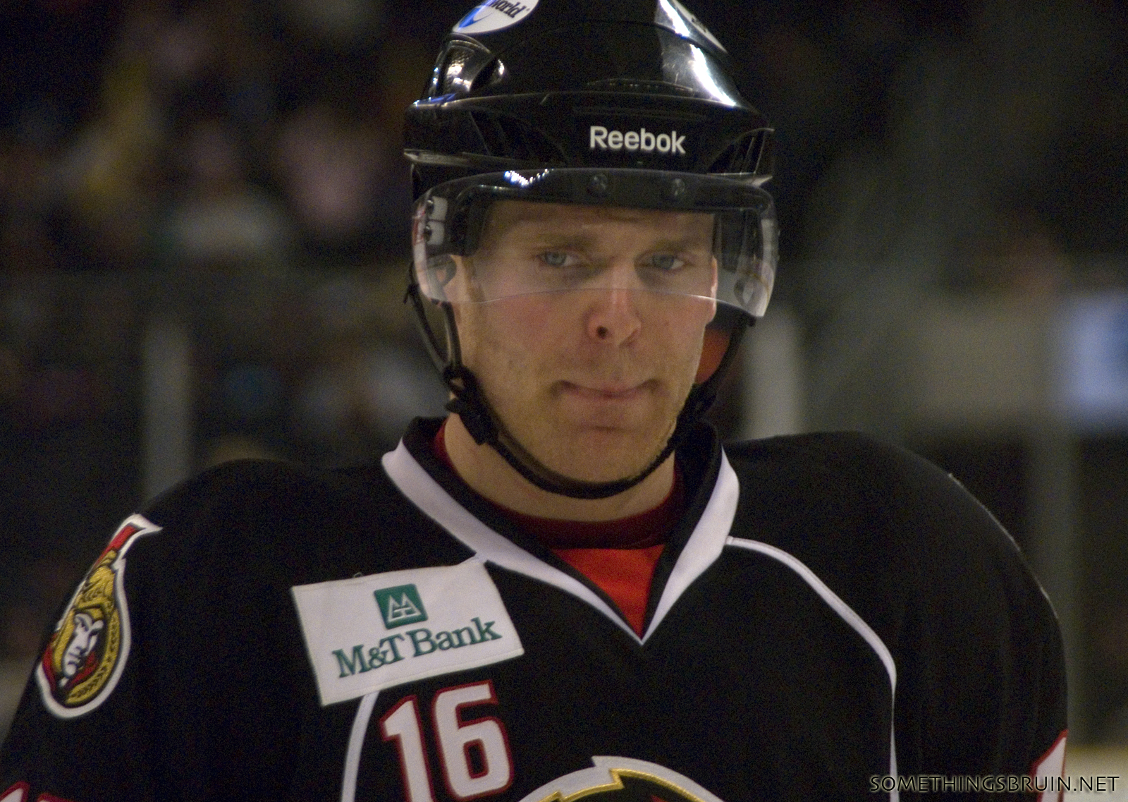 Cody Bass. Photo taken on January 9, 2011 by Sarah Connors. Providence Bruins vs. Binghamton Senators – American Hockey League (AHL) This photo also appears in sarah_connors' Flickr photostream B-Sens @ Providence, 1/9/11 (Set: 174) Flickr Tags: bruins pbruins ahl nhl senators ottawa senators Binghamton senators Boston bruins providence bruins icehockey hockey